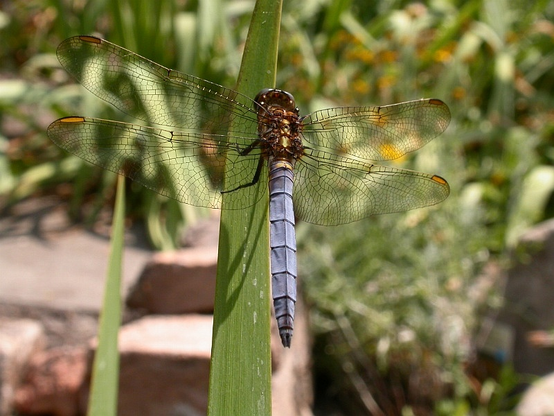 Male